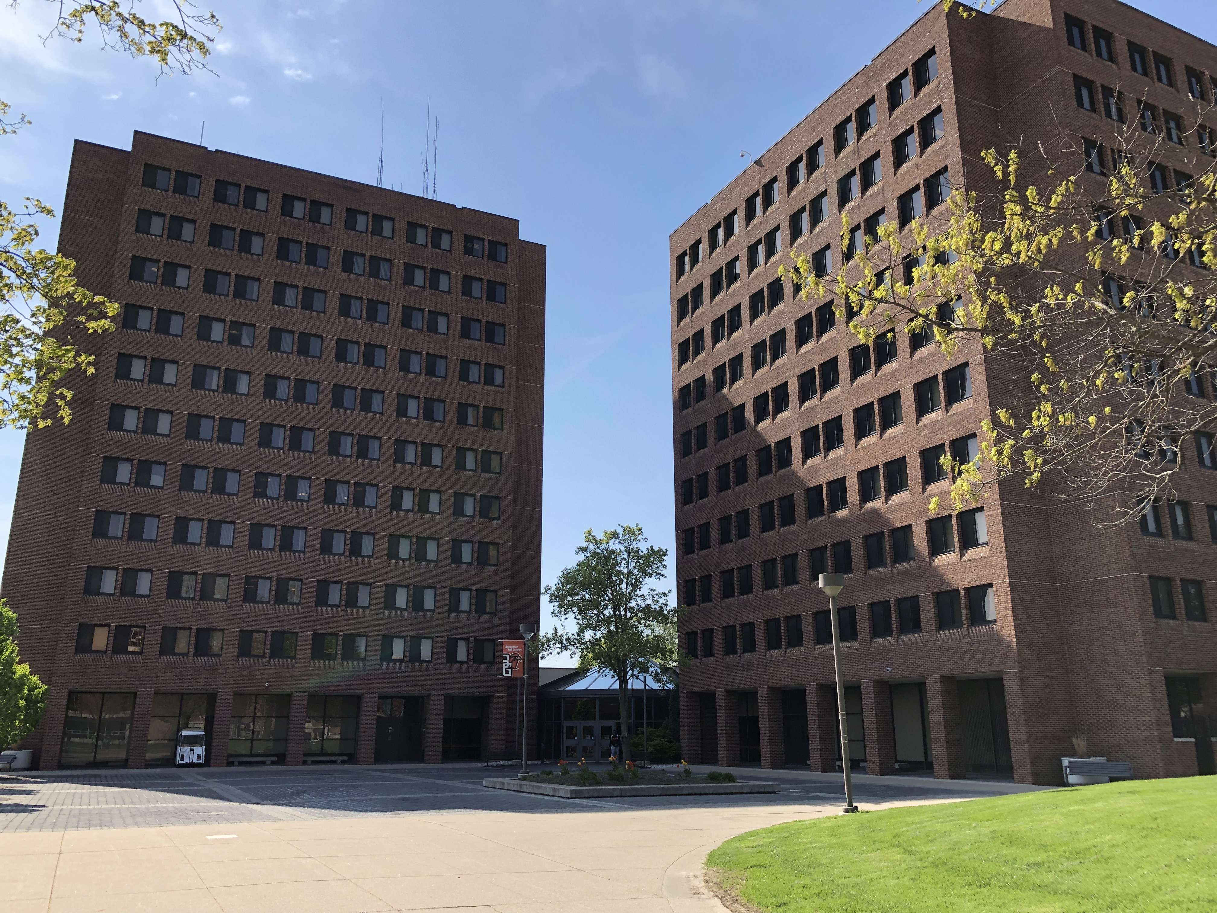 Offenhauer Towers on a spring afternoon